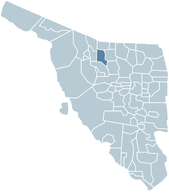 Map of the Municipality of Magdalena de Kino — of Sonora, northwestern México.